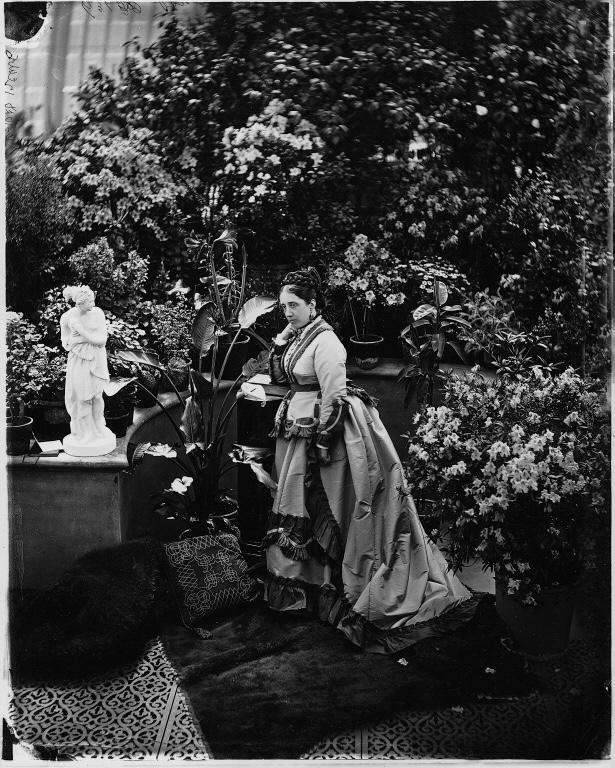 Mrs Isabella Ann (Smith) Allan of Montreal, 1871. Taken by Notmans, held at the McCord Museum, Montreal